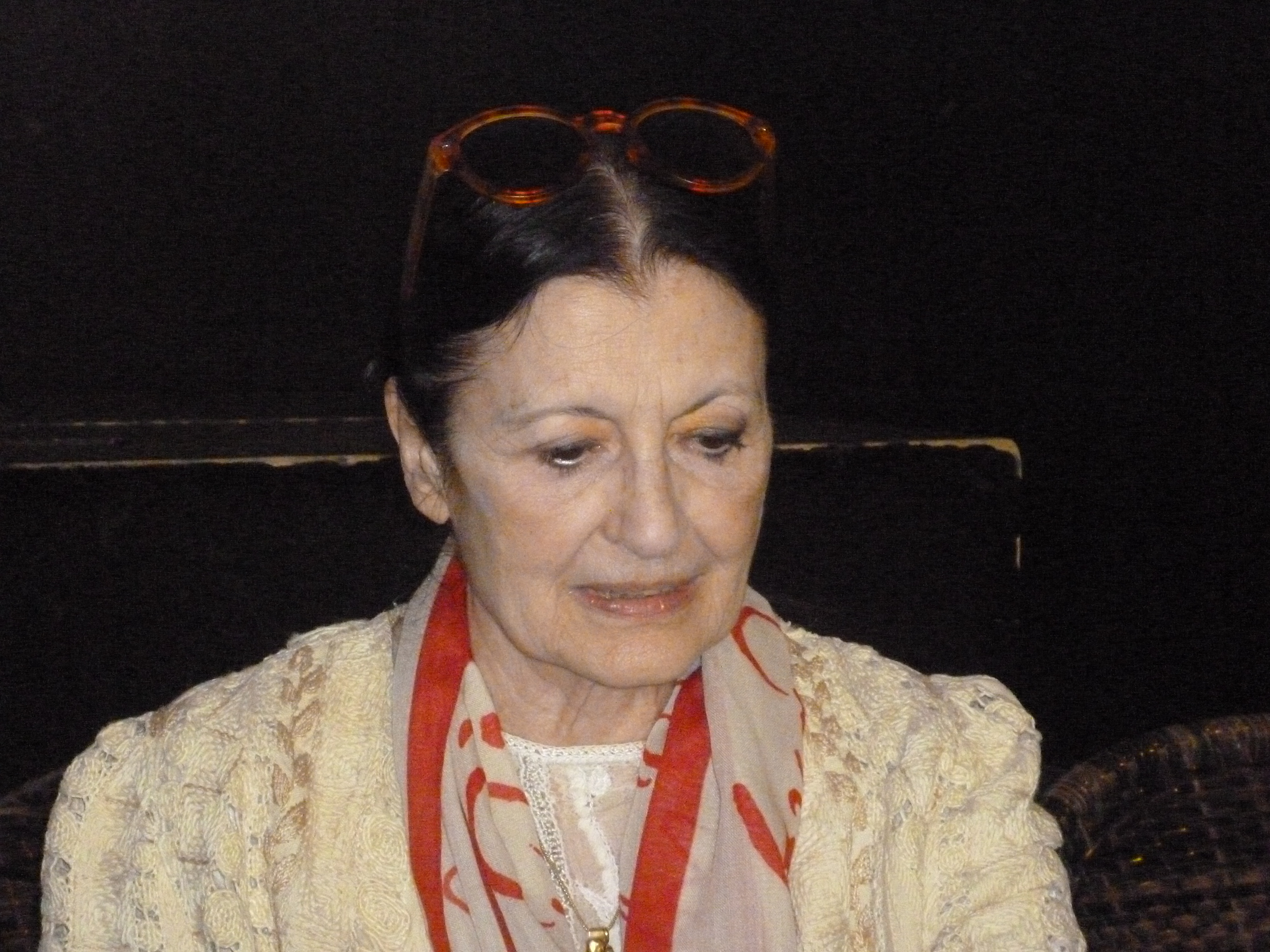 Carla Fracci in 2014